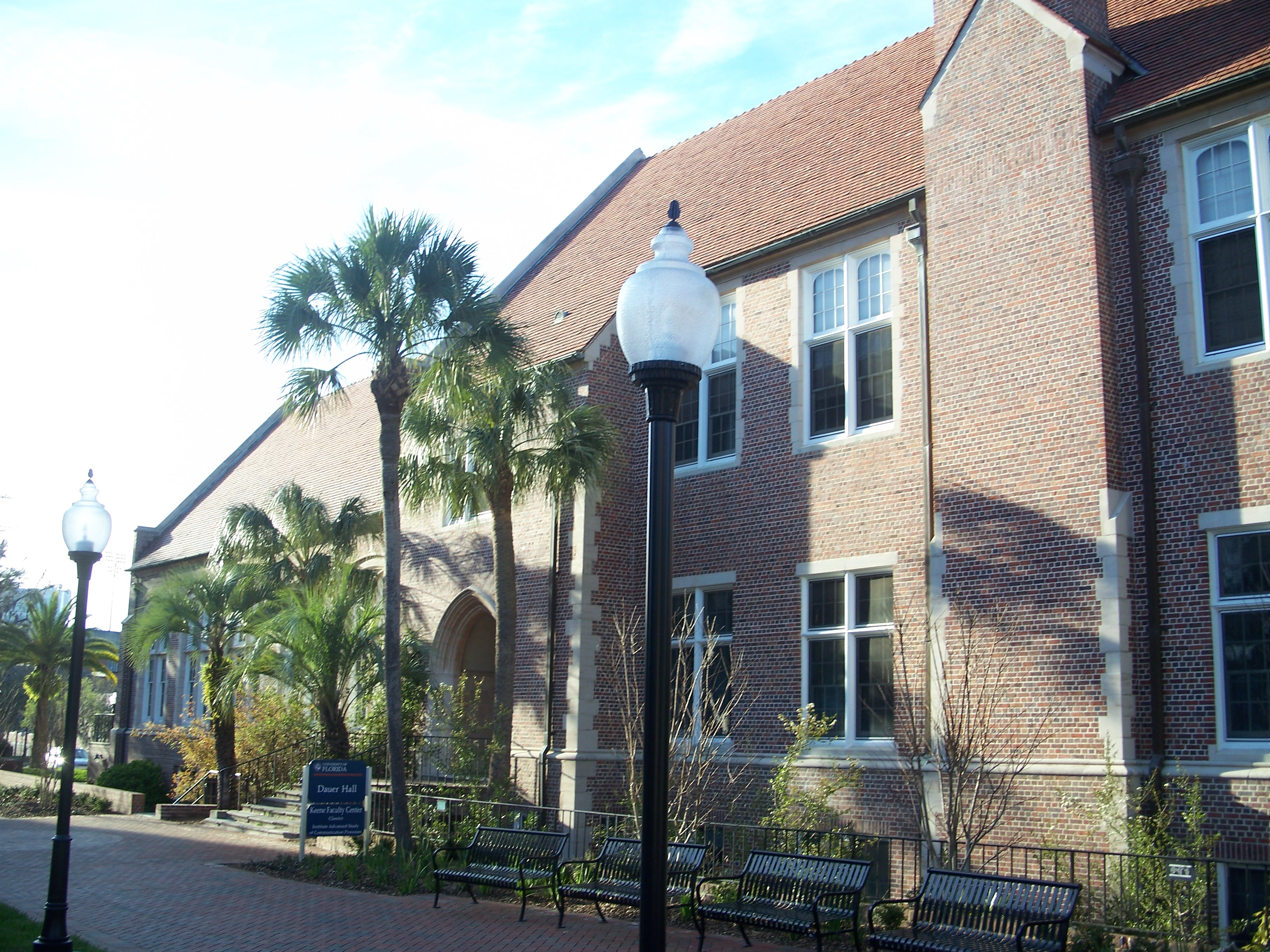 Dauer Hall, part of the University of Florida Campus Historic District